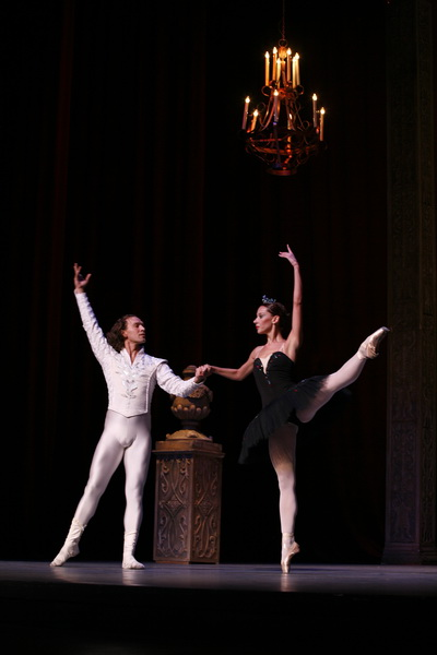 National Theater and Ballet performing, honoring success of Mathematical Gymnasium Belgrade students at International Mathematics Olympiad and International Physics Olympiad. Mathematics and Physics together, science and human ability to create and destroy, a metaphor by National Ballet dancers in the National Opera House.